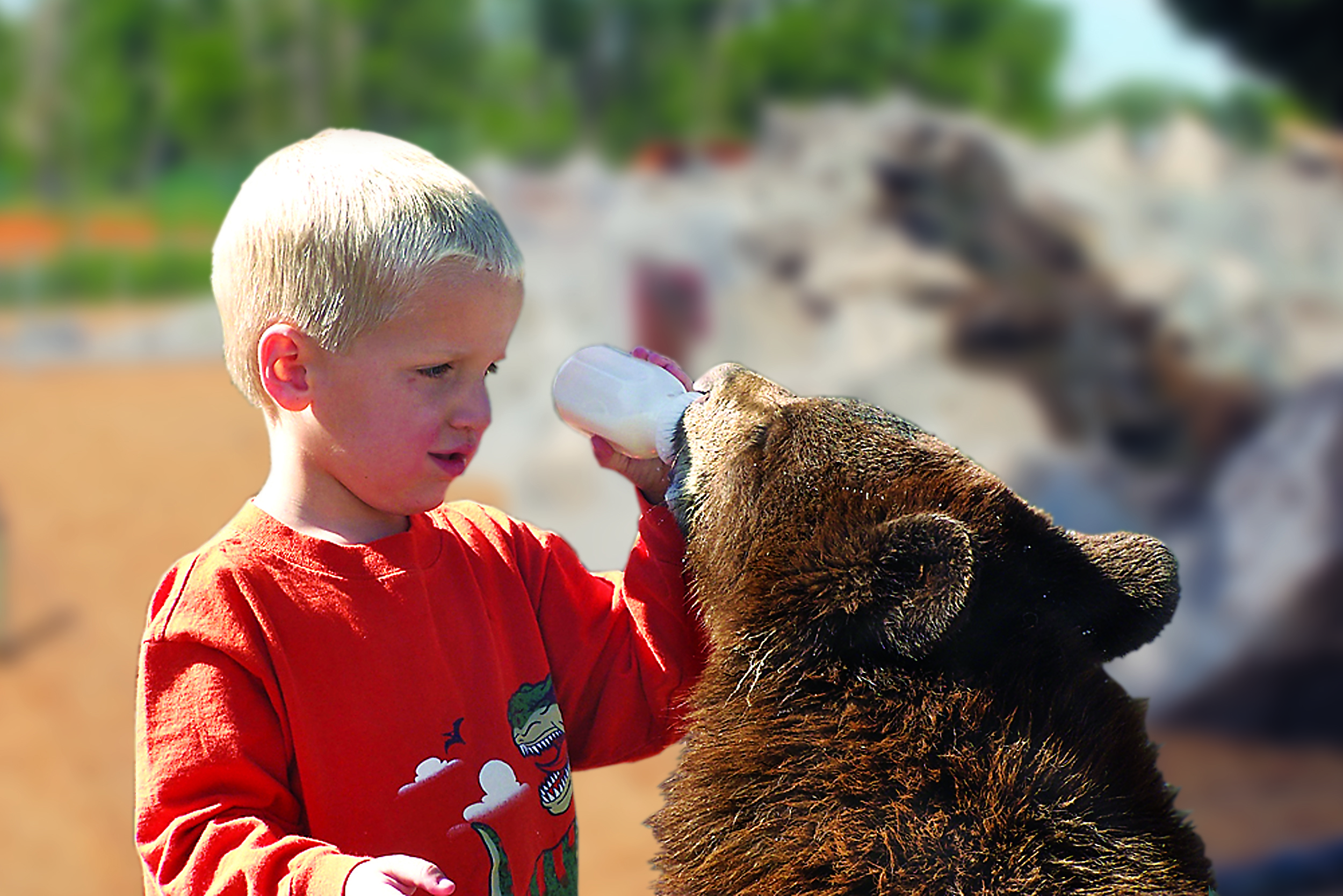 Child Bottle Feeding an American Black Bear cub.